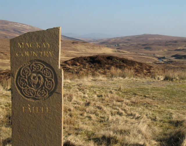 The Province of Strathnaver Originally the area run by the Mackay Clan